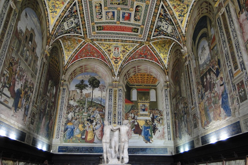 In the Siena Cathedral